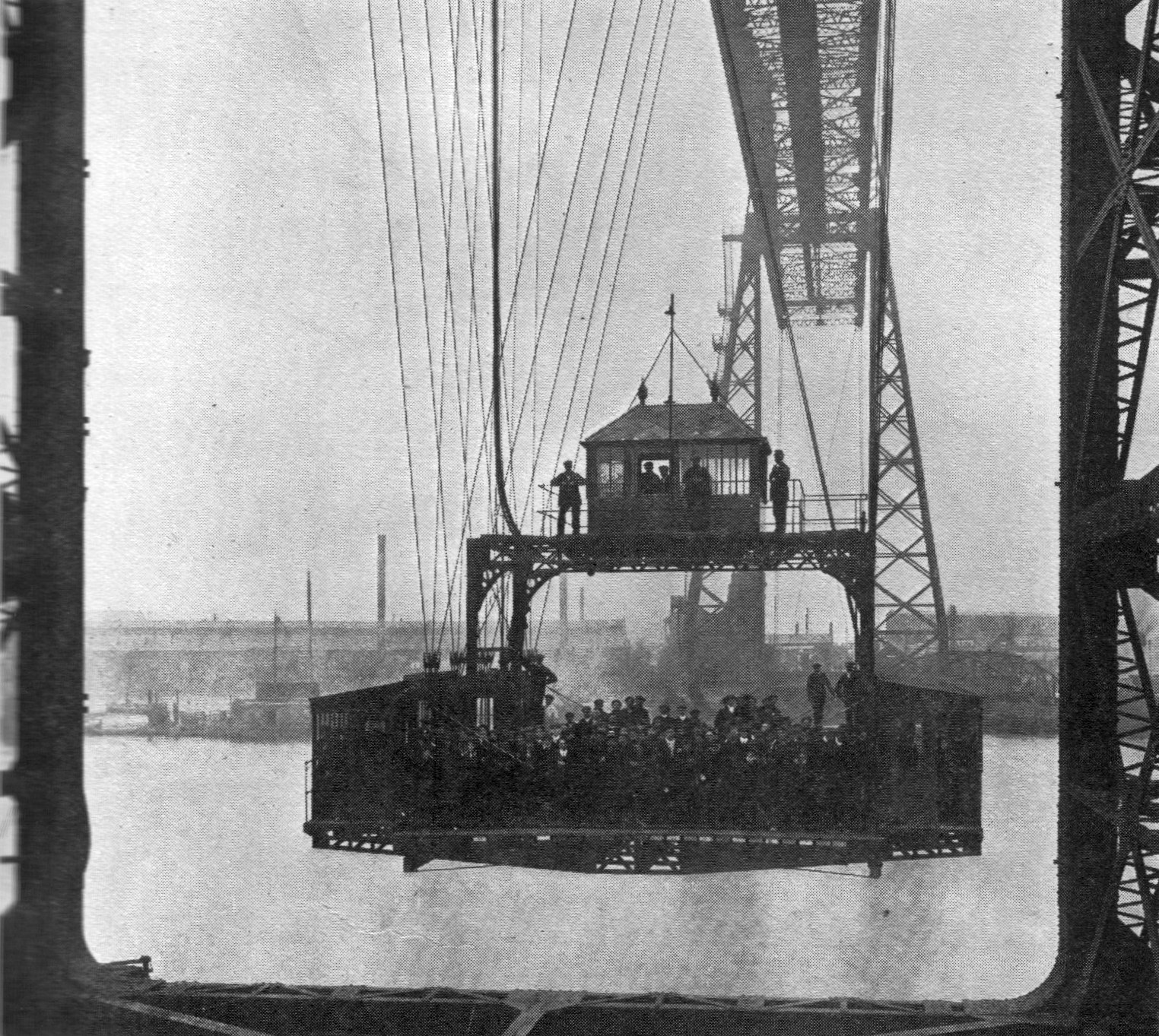 Travelling Car, Transporter Bridge, Middlesbrough Crosses the River Tees. The bridge has a clear span of 571 feet and a clear height above water of 160 feet. The car travels at four feet above high water level. It will hold 600 people and one tramcar.